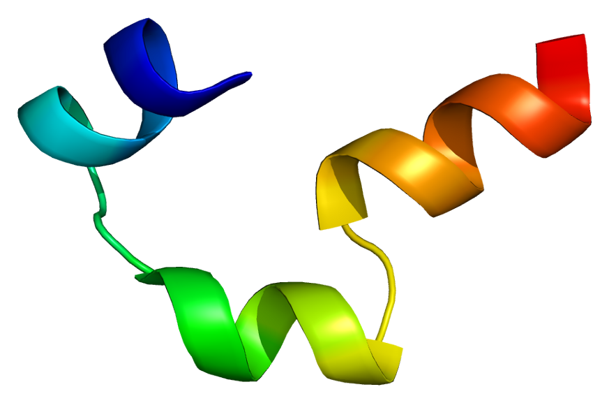 Structure of the CCKBR protein. Based on PyMOL rendering of PDB 1l4t.